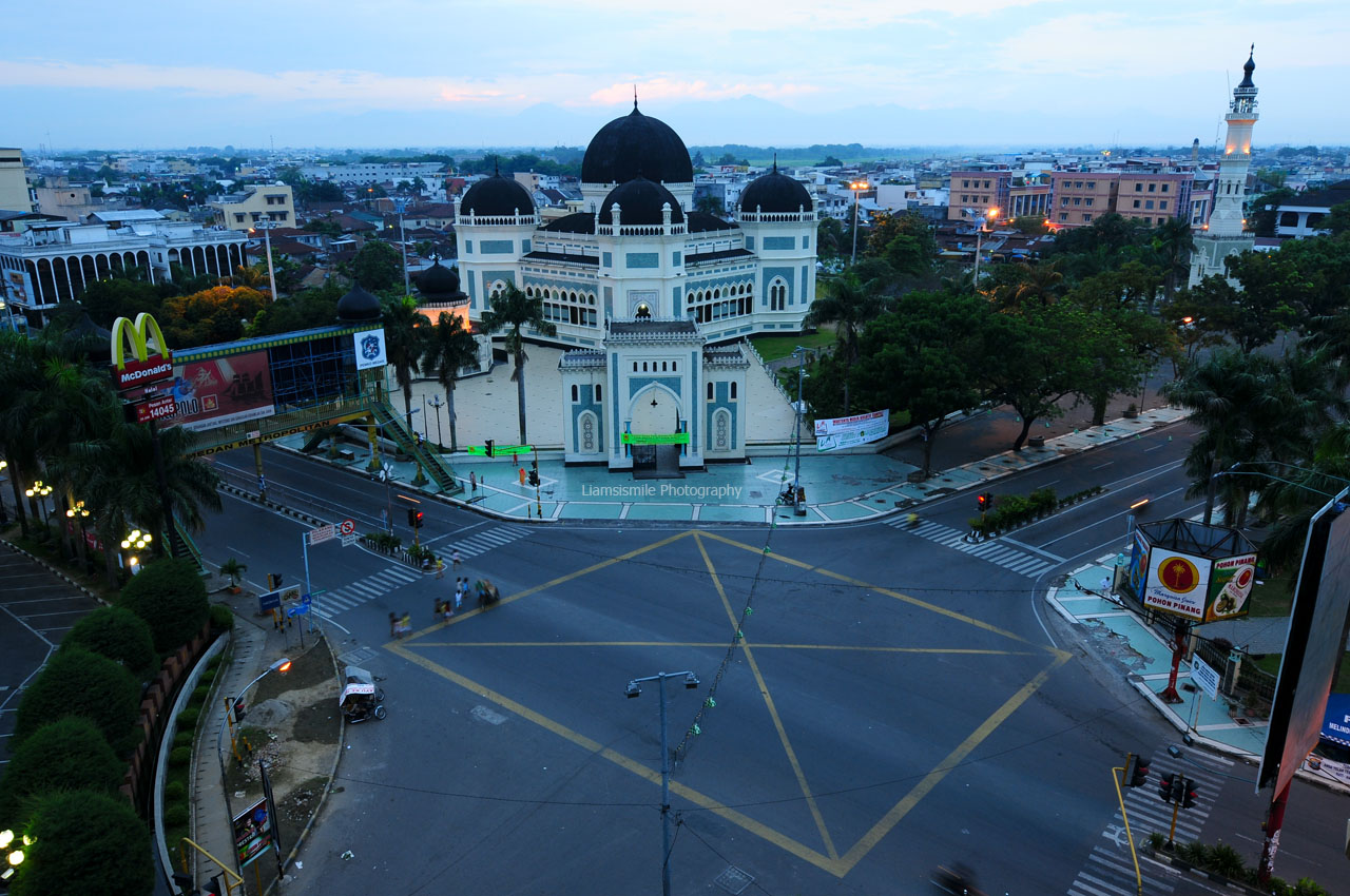 Street view of Masjid Raya Medan (Great Mosque of Medan)